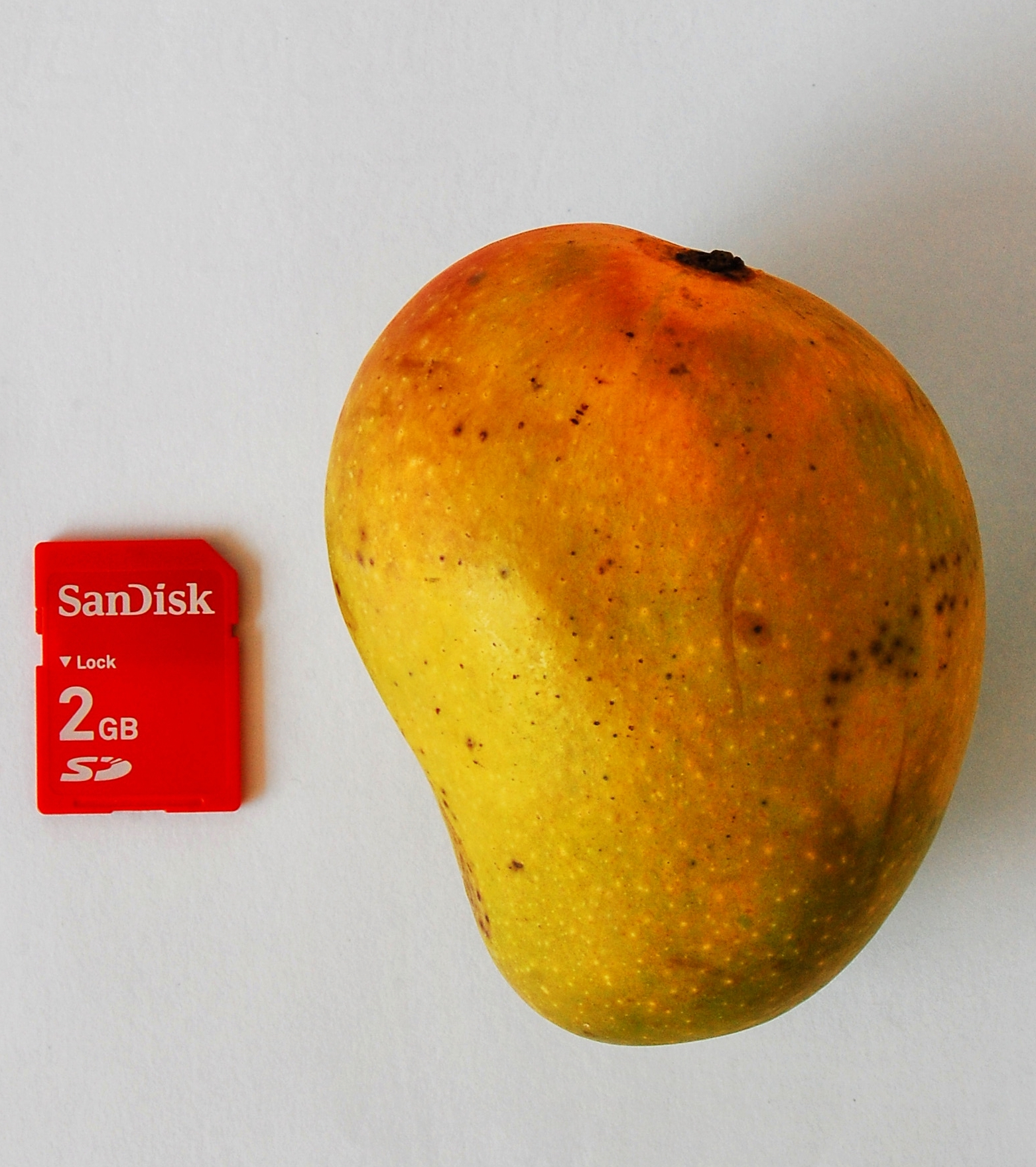 Mango badami